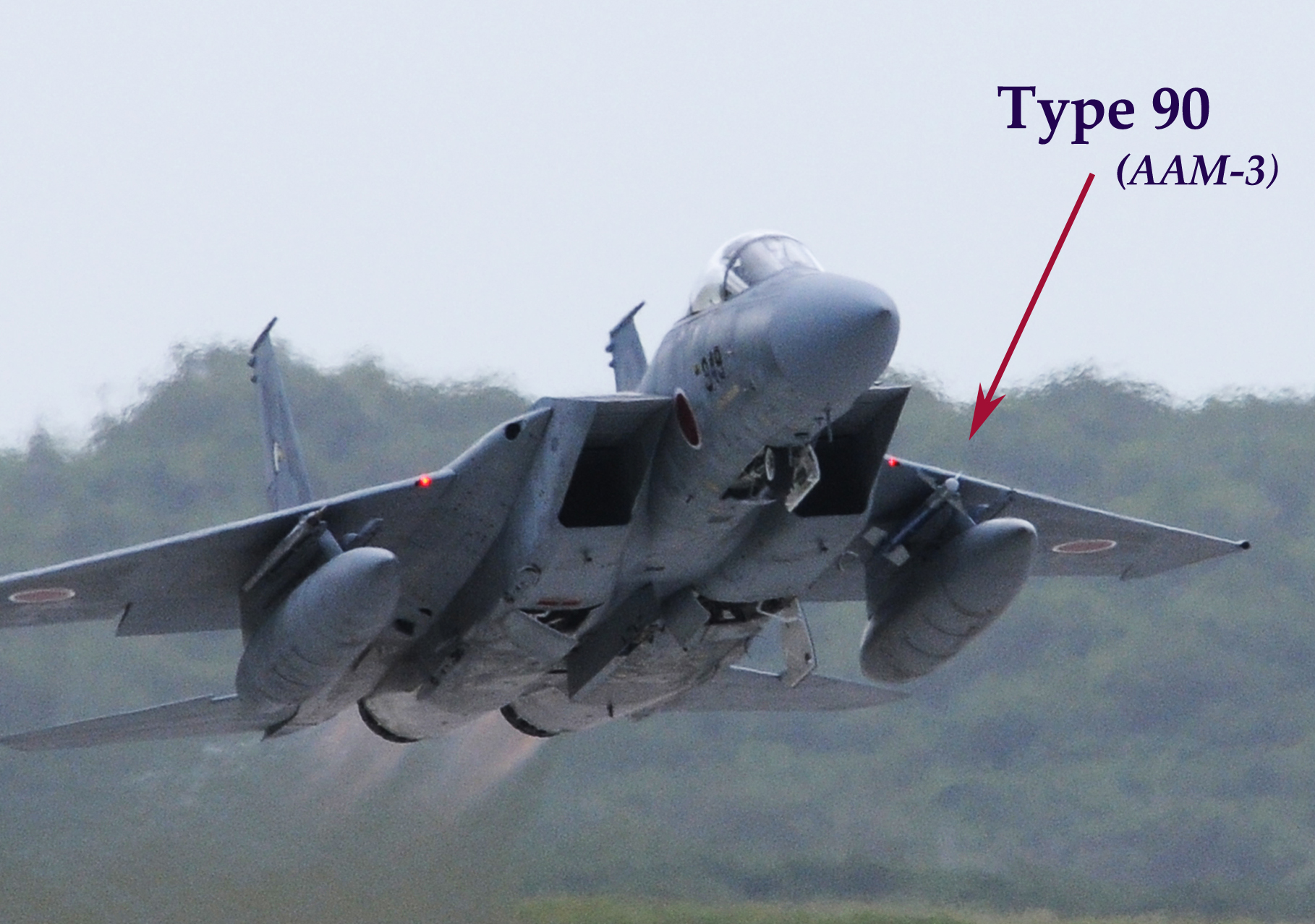 F-15J (949) of 204 Sqn with a Type 90 AAM.